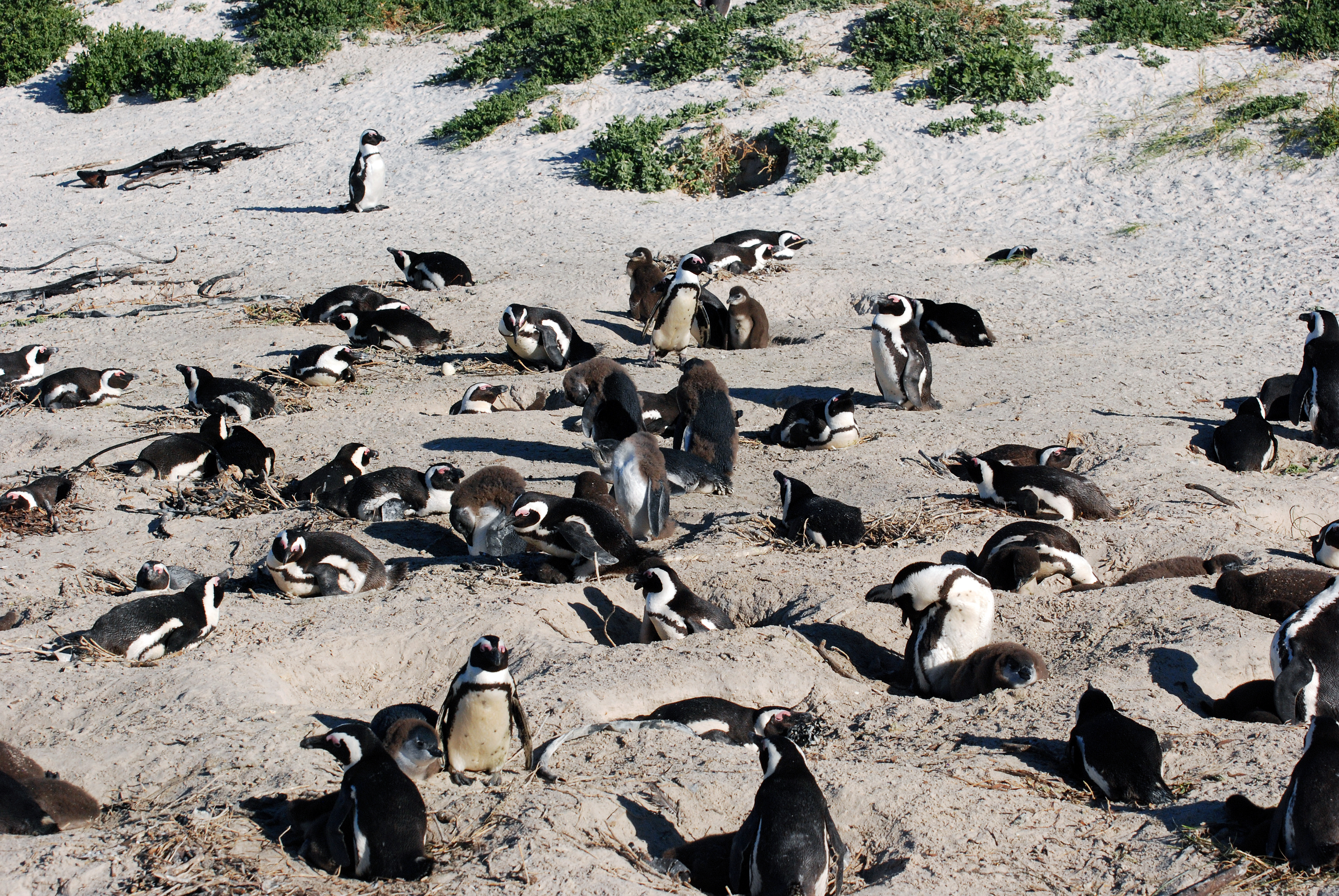 The African Penguin (Spheniscus demersus), also known as the Black-footed Penguin is a species of penguin, confined to southern African waters.